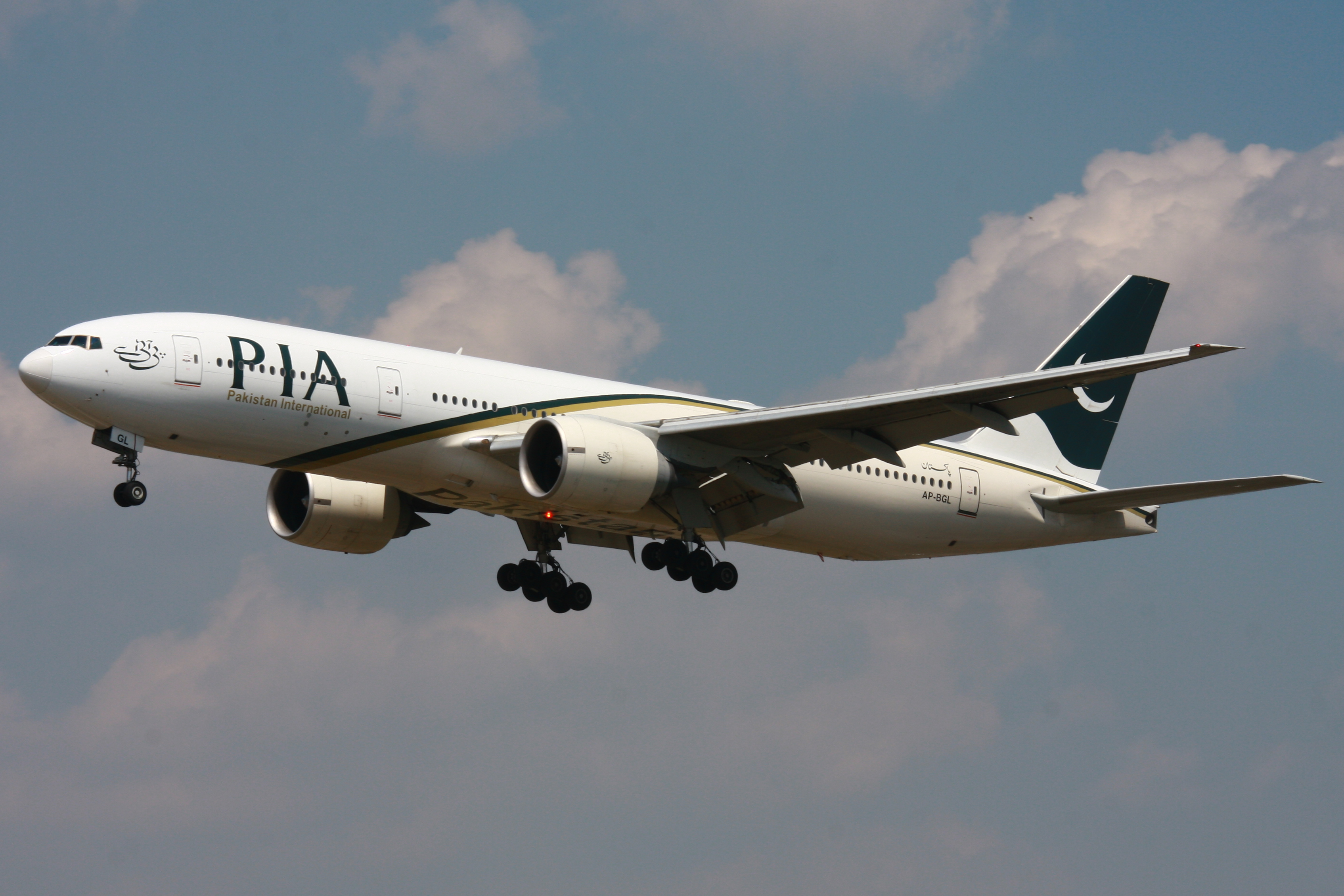 A Boeing 777 of Pakistan International Airlines landing at Frankfurt Airport